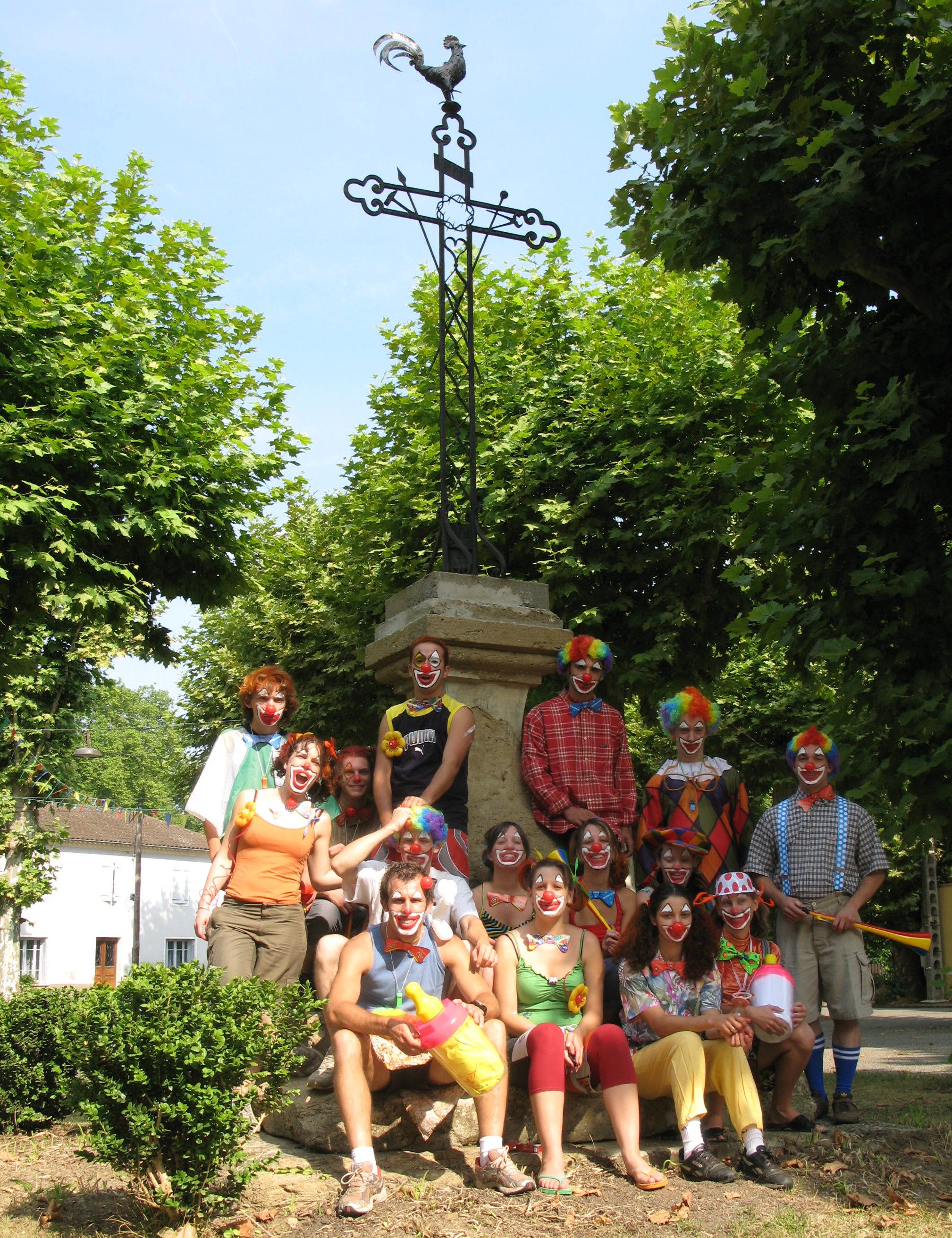 The "Comité des Fêtes" of Saint-Laurent sur Save (France)